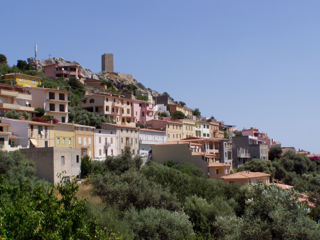 Posada, Sardinia, Italy